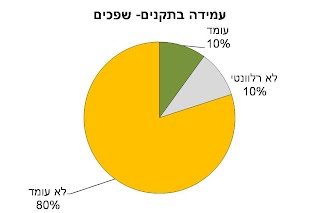 Plants compliance with Sewage standards in Tefen Industrial park.